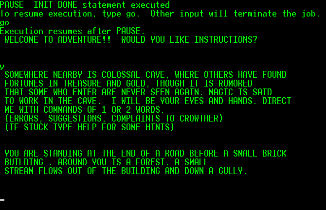 Screenshot of Will Crowther's original Colossal Cave aka ADVENT (1975-76), running on a Windows computer. See Jerz, Digital Humanities Quarterly 1.1 (2007).